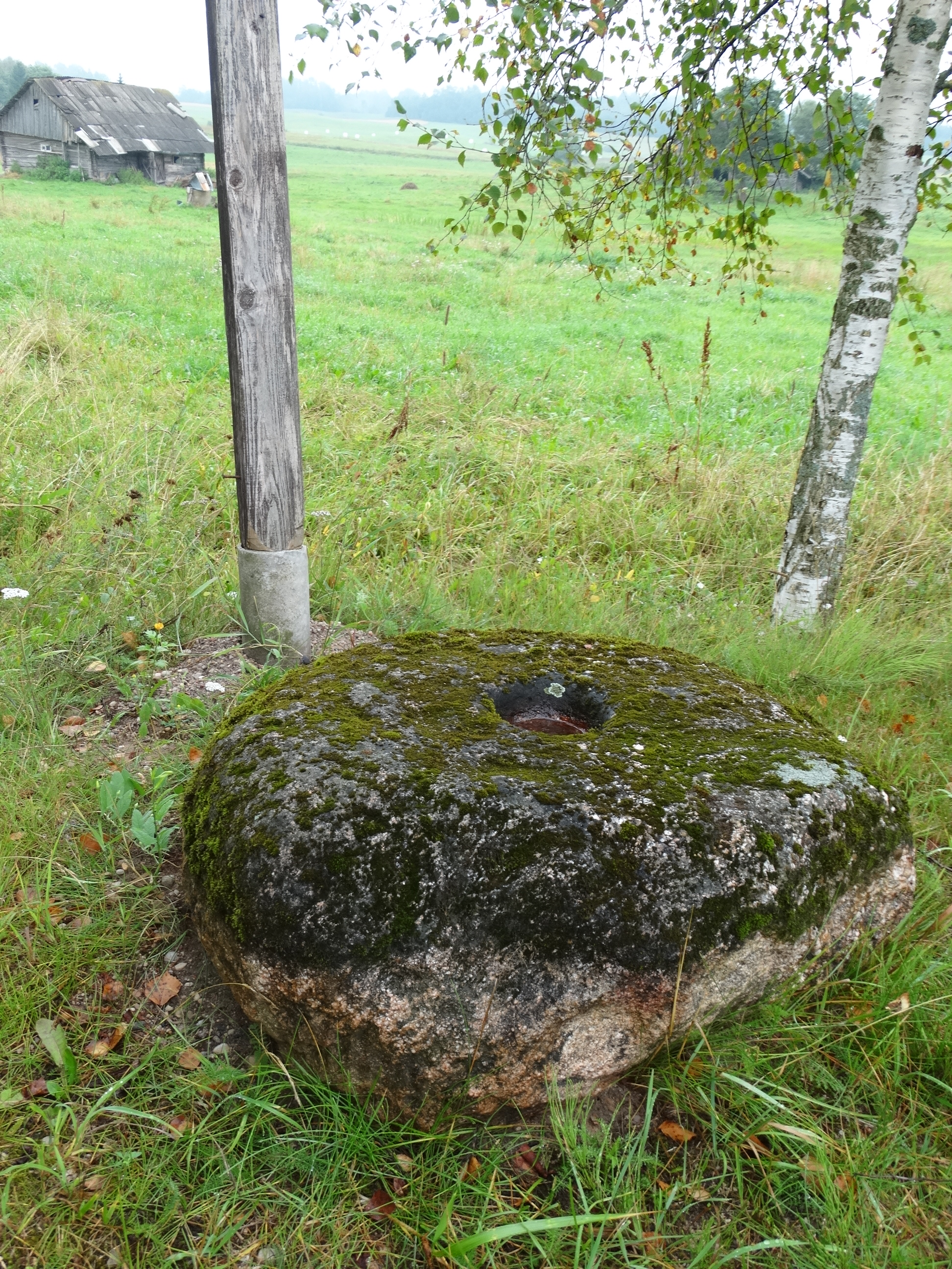 Mythological stone, Spitrėnai, Utena District, Lithuania